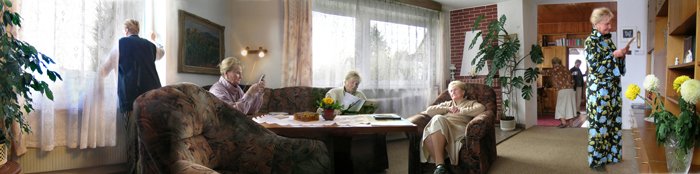 Fotografie Sylvy Francové; Sylva Francová´s photographs Neměňte rozlišení. Don´t change resolution! Personality rights warningAlthough this work is freely licensed or in the public domain, the person(s) shown may have rights that legally restrict certain re-uses unless those depicted consent to such uses. In these cases, a model release or other evidence of consent could protect you from infringement claims.